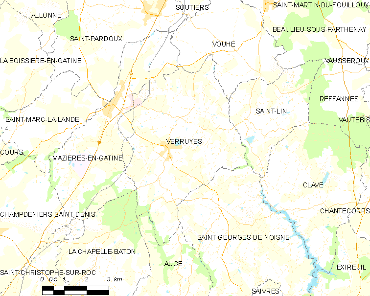 Map of French municipality Verruyes